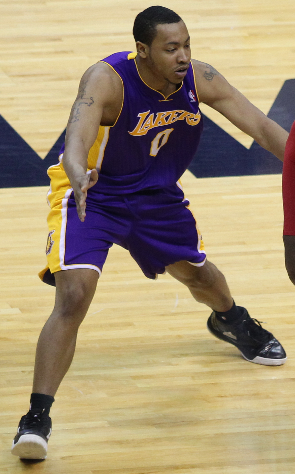 Lakers at Wizards March 7, 2012